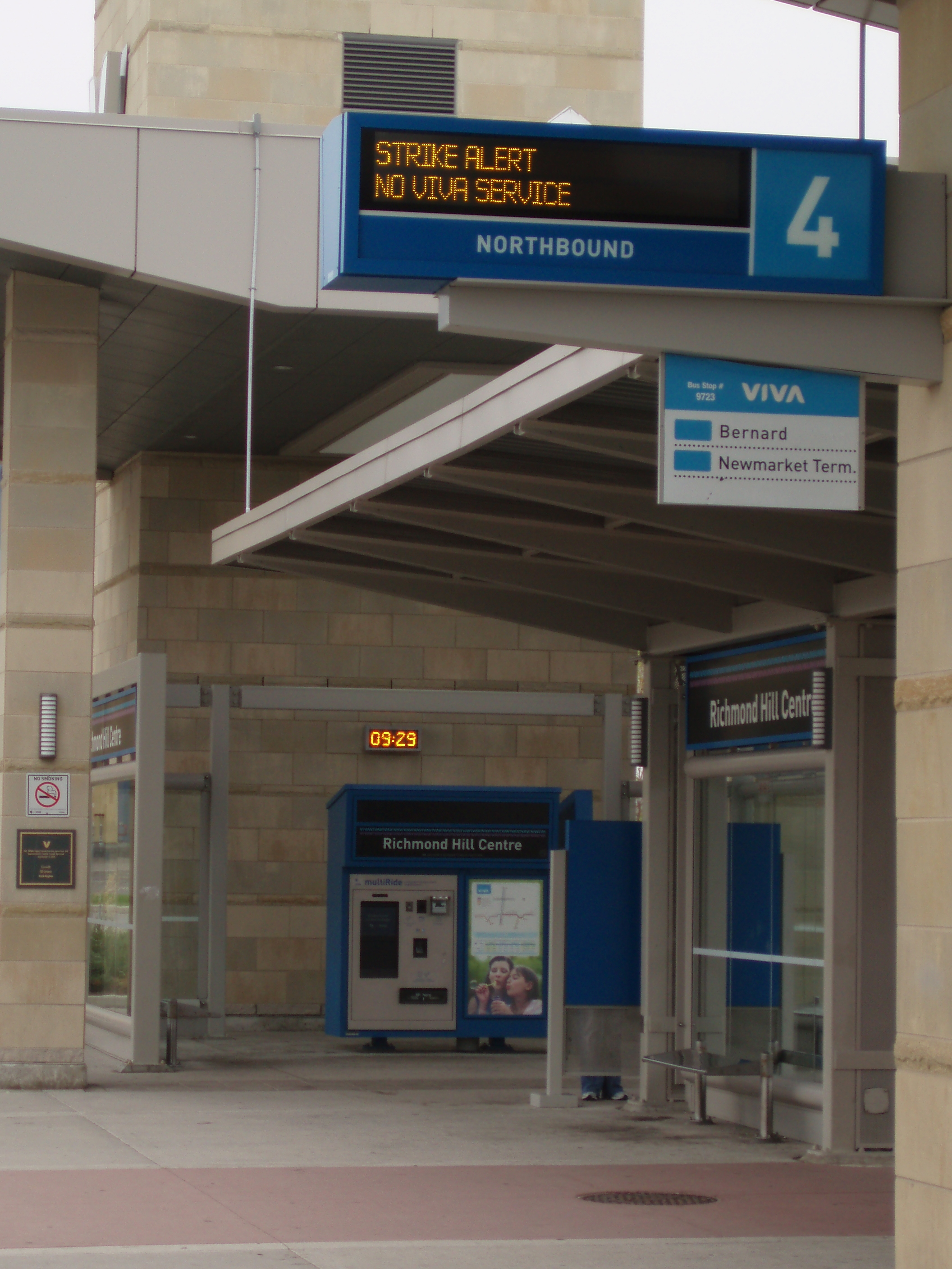 Richmond Hill Centre Terminal during the VIVA strike in Sept 2008.